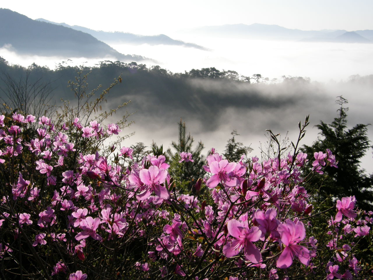 Rhododendron＆Vast ocean of clouds、コバノミツバツツジ＆篠山盆地雲海、盃ヶ岳